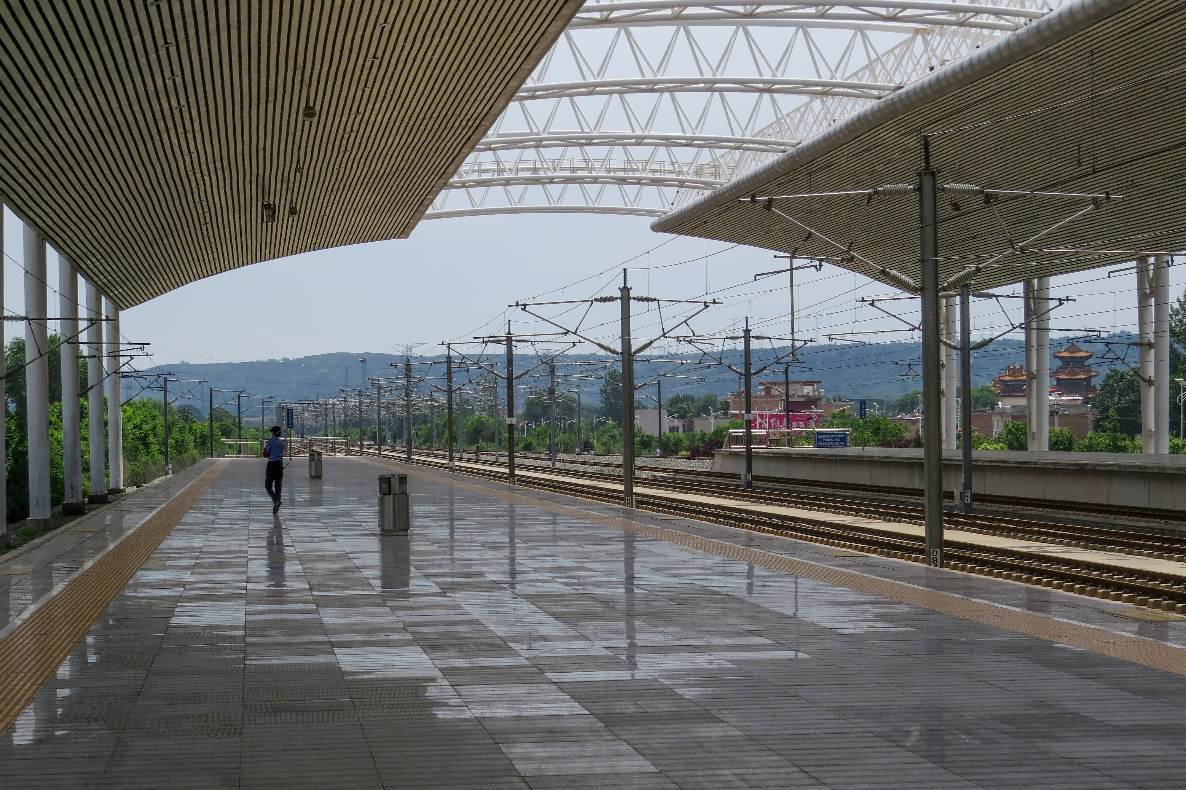 华山北4、5站台